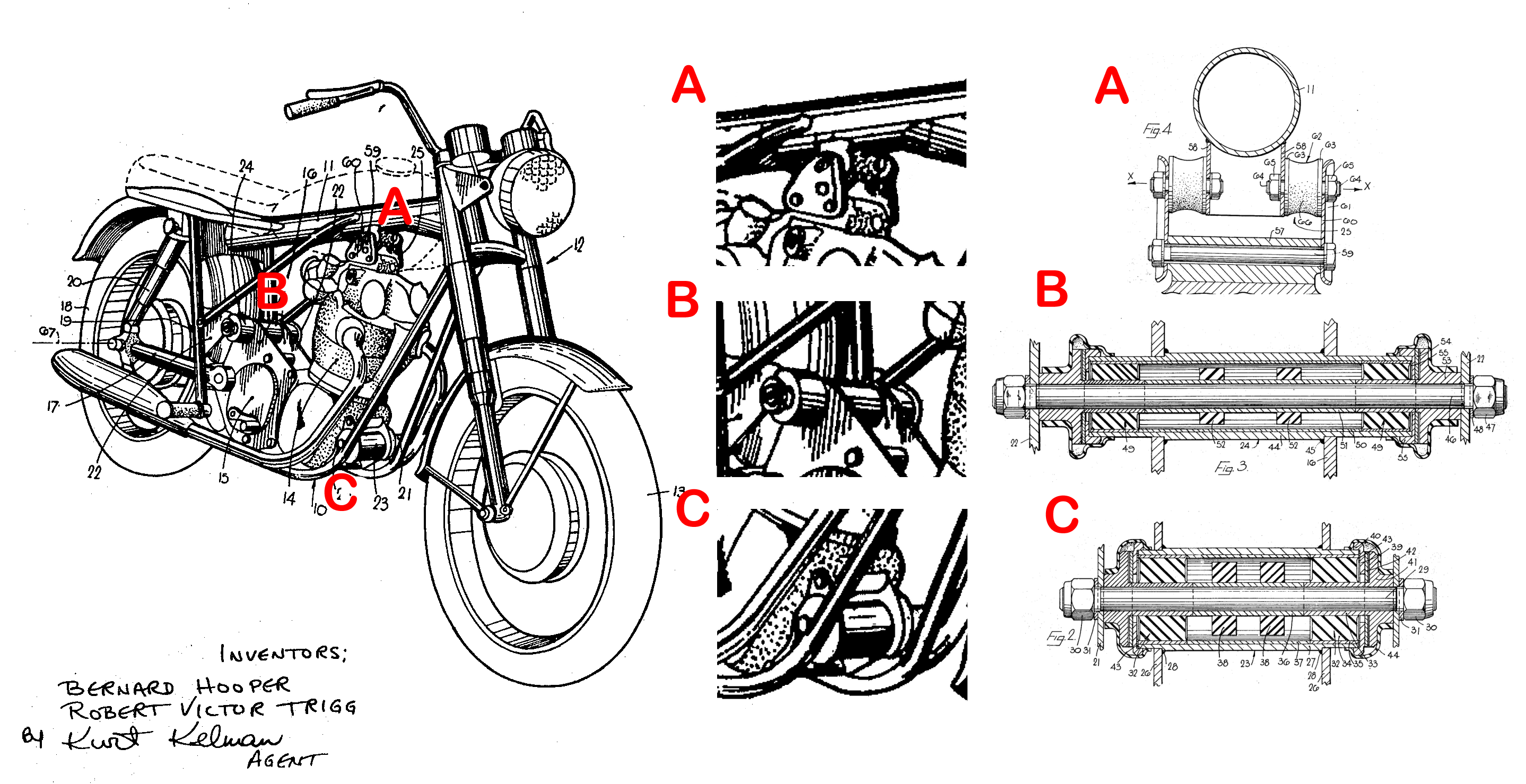 B62K25/283 Axle suspensions for mounting axles resiliently on cycle frame or fork with pivoted chain-stay for cycles without a pedal crank, e.g. motorcycles. Inventor Bernard Hooper, Robert Victor Trigg Current Assignee Norton Villiers Ltd Original Assignee Norton Villiers Ltd Priority 1967-06-08